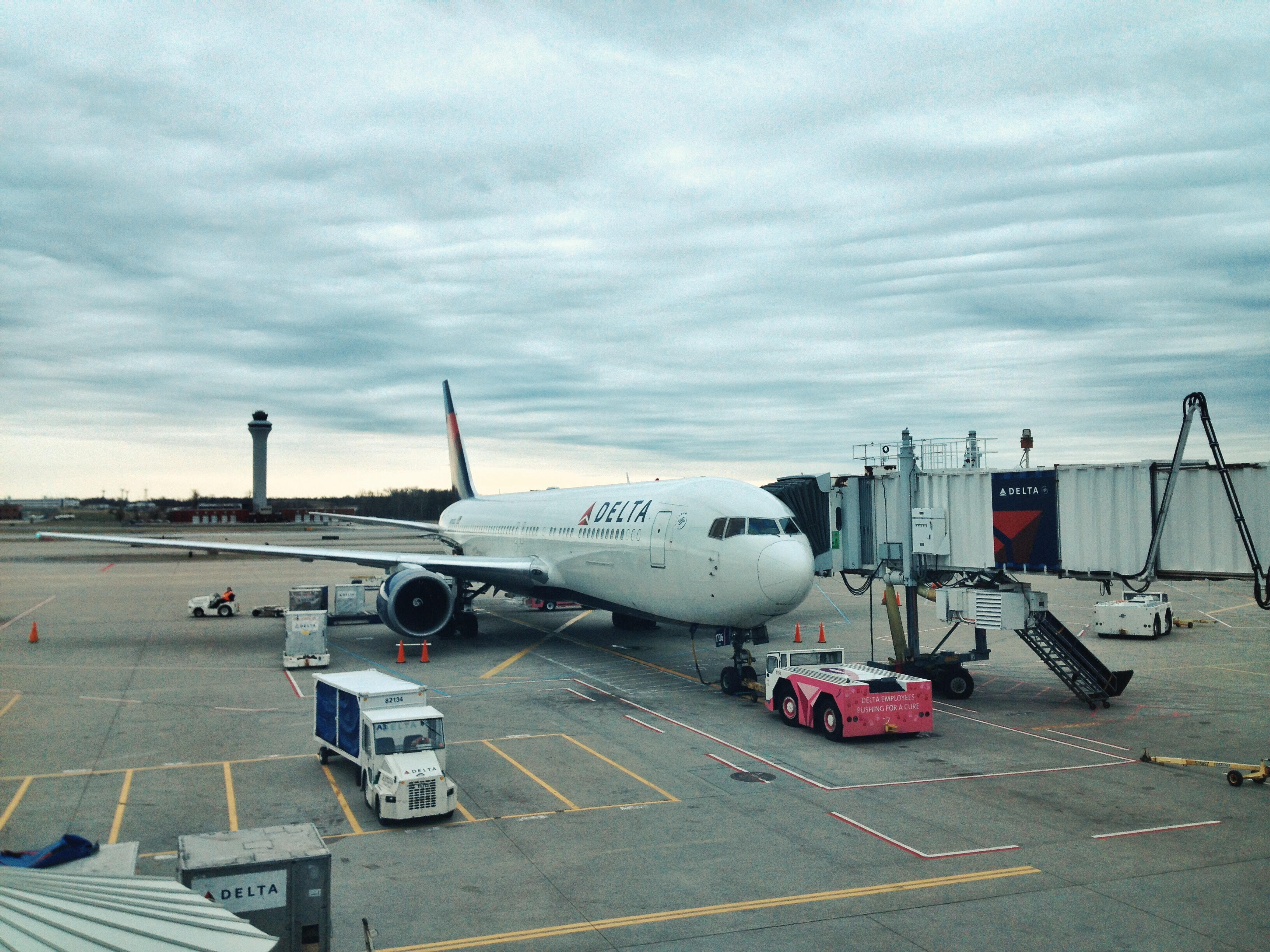 Delta Air Lines Boeing 767-300 at CVG.